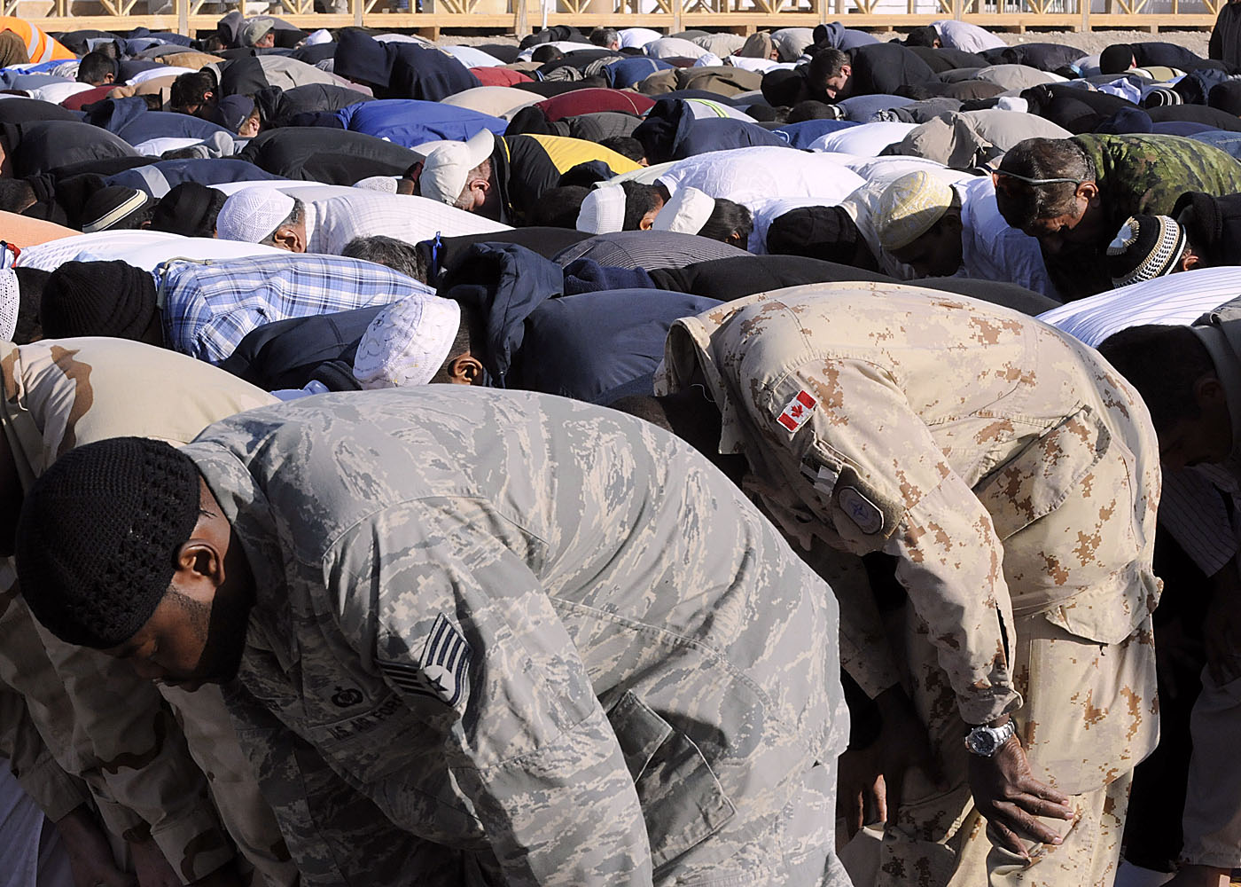 Hundreds of Muslims from pray together during an Eid al-Adha worship service at Kandahar Air Field, Afghanistan, Nov. 16. Eid al-Adha marks the end of Hajj, an annual religious pilgrimage to Mecca, Saudi Arrabia. 16th Mobile Public Affairs Detachment Photo by Senior Airman Daryl Knee Date Taken:11.16.2010 Location:KANDAHAR AIR FIELD, AF Related Photos